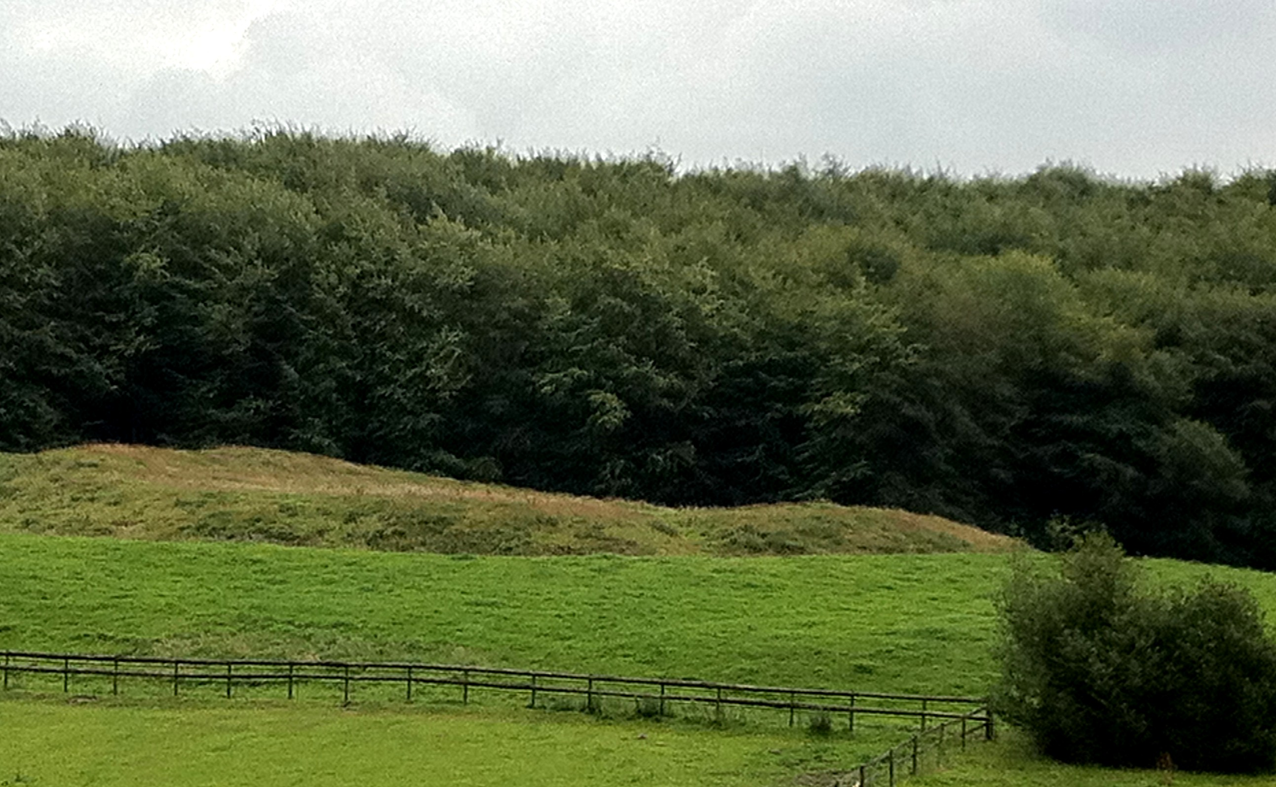 Ringwork of Hales Castles